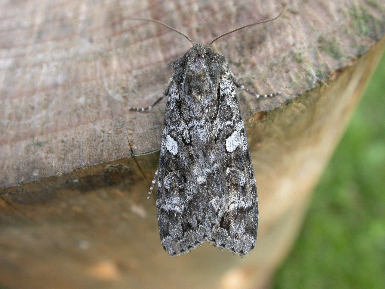 Eurois occulta, to MV light, Hellerup, Denmark, 20 August 2003